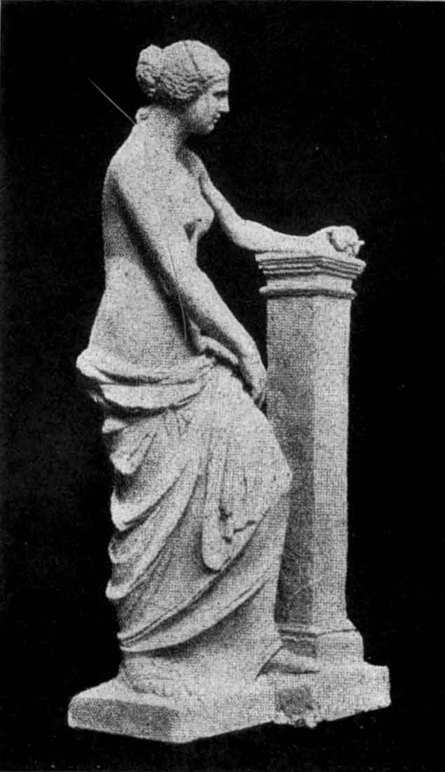 A photograph of a proposed restoration of the Venus of Milo (Venus de Milo) by Adolf Furtwängler incorporating the arm fragments found with the statue at the time of its discovery